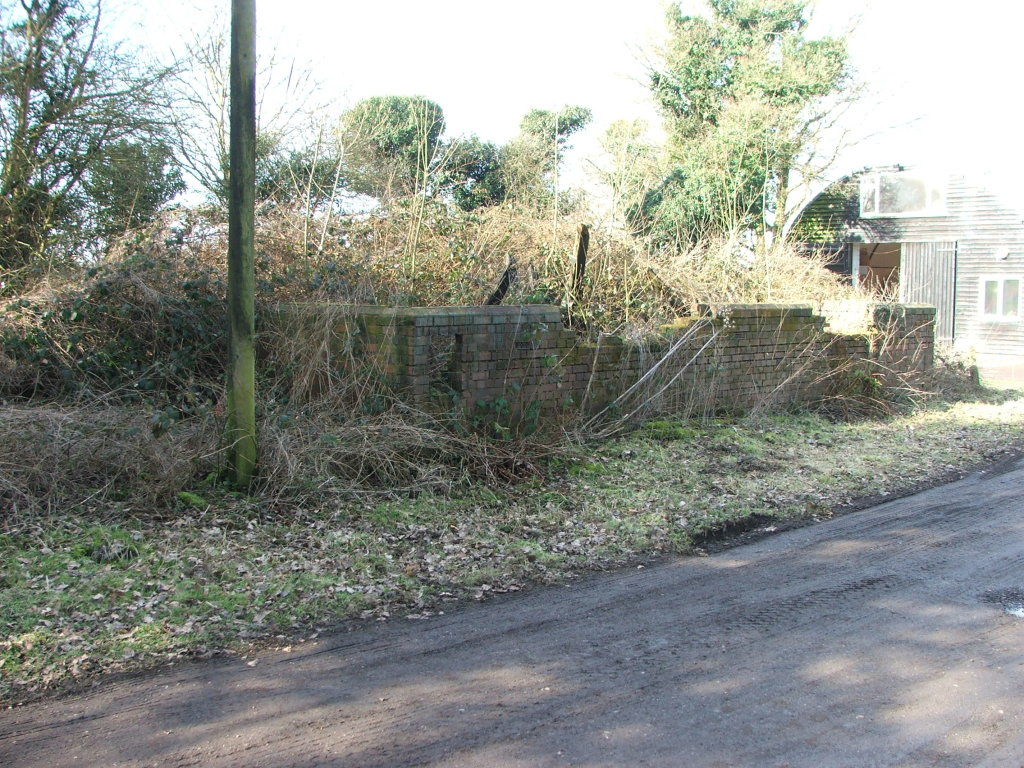 The brick base of Frittenden Road railway station building in February 2009.